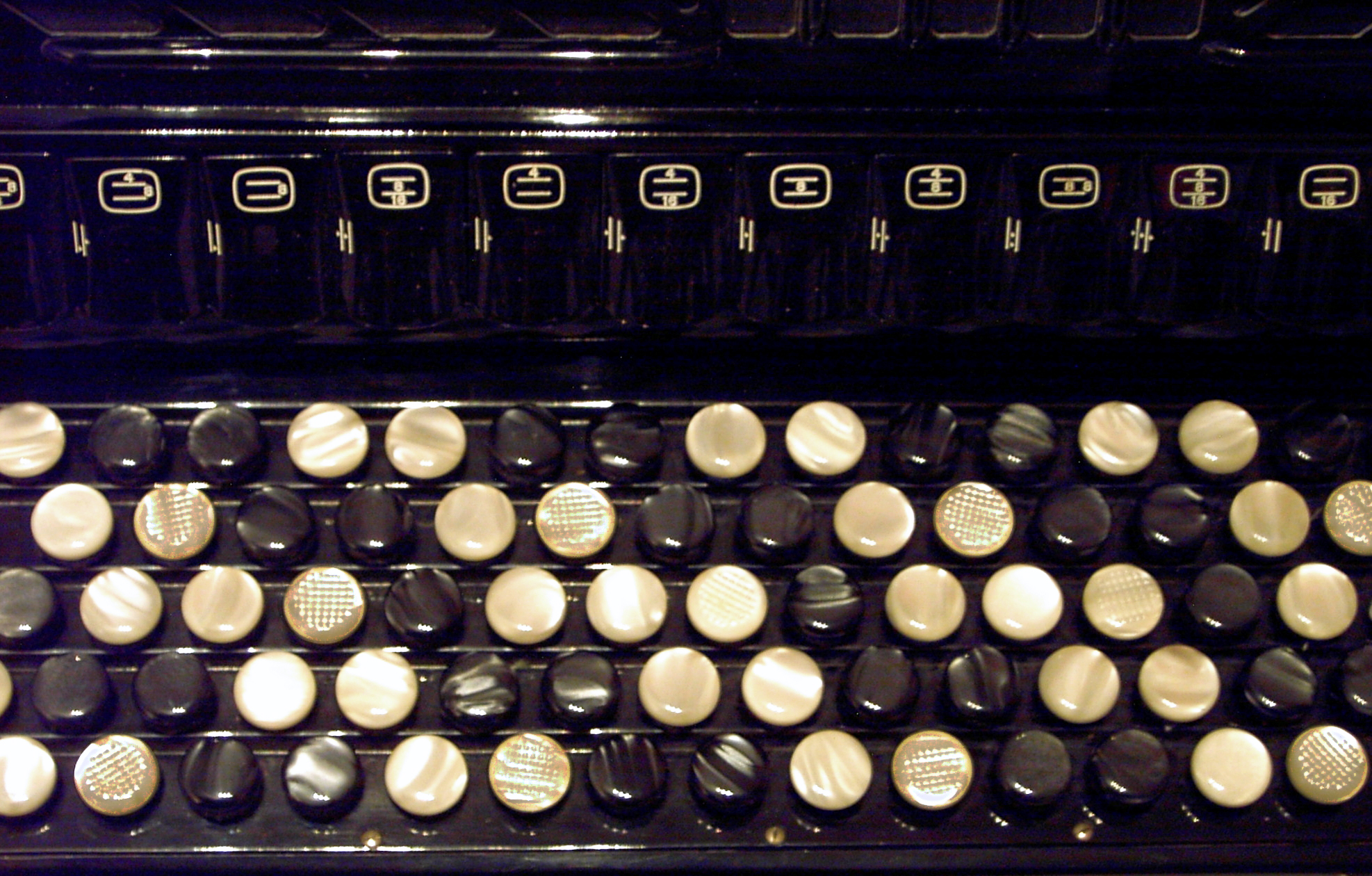 chromatic button accordion, C-type, Bugari; C and F are marked